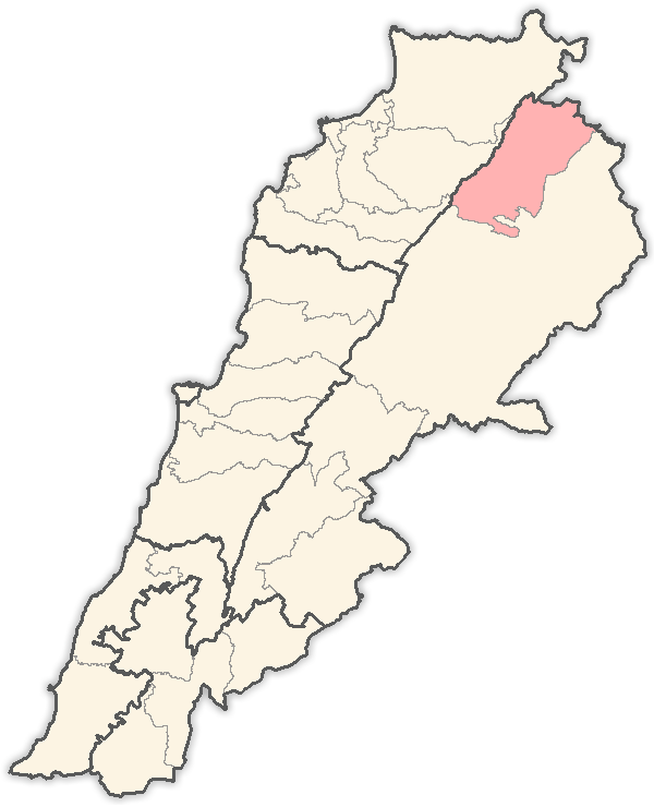 Map of districts in Lebanon, highlighting the Hermel District